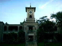 University of Puerto Rico, Mayaguez Campus - Administration Building (Edificio Jose de Diego) Image taken by me in October 2000.